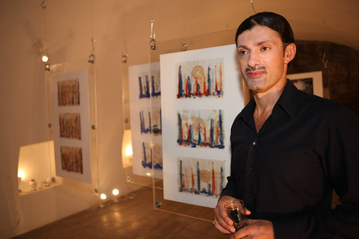 Athanasio Celia & Verticalismus